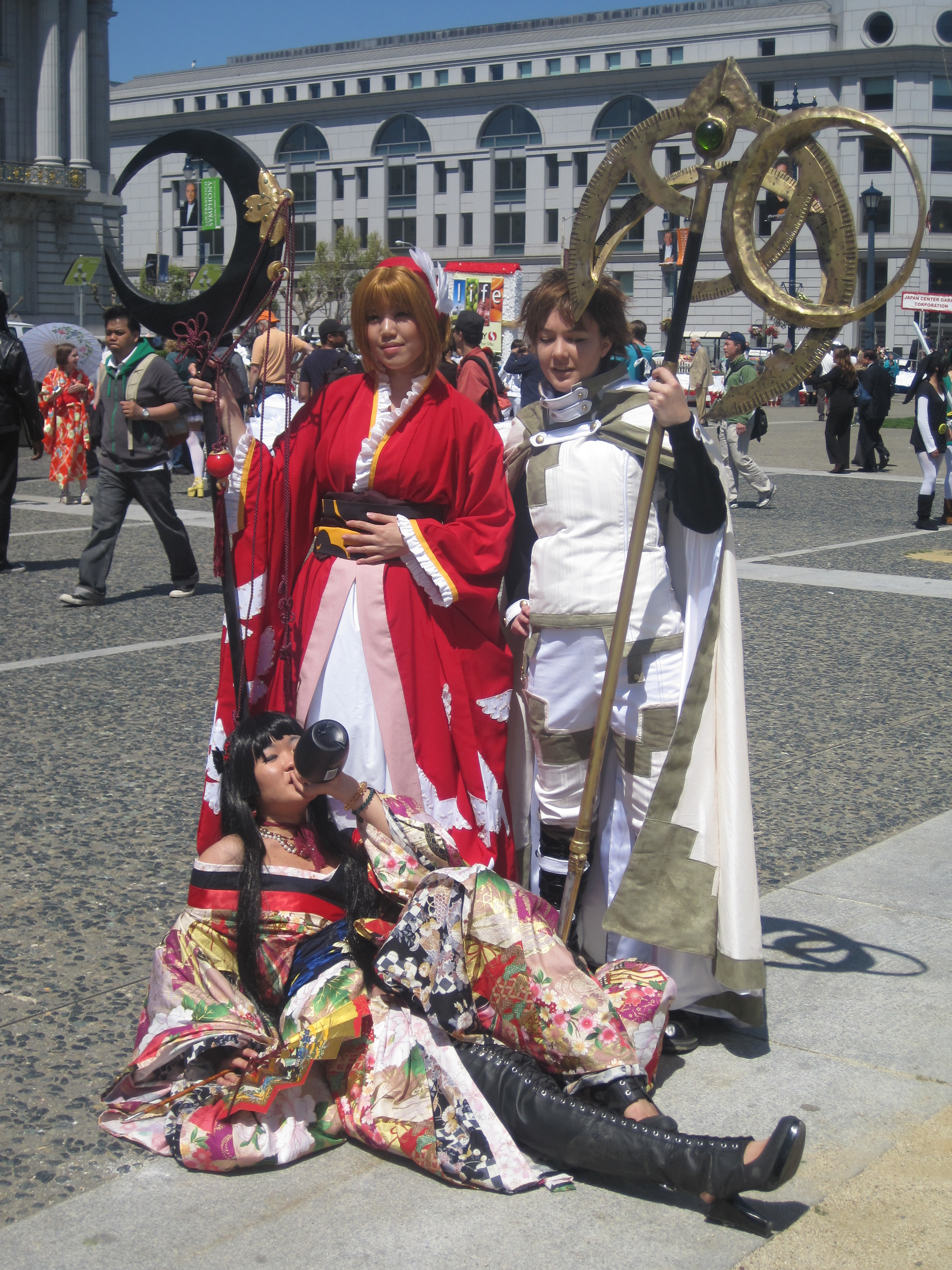 Cosplayers portraying three characters from various CLAMP series at the 2010 Northern California Cherry Blossom Festival. Standing from left to right: Sakura from Cardcaptor Sakura, Syaoran from Tsubasa: Reservoir Chronicle, and Yuko Ichihara from xxxHolic.